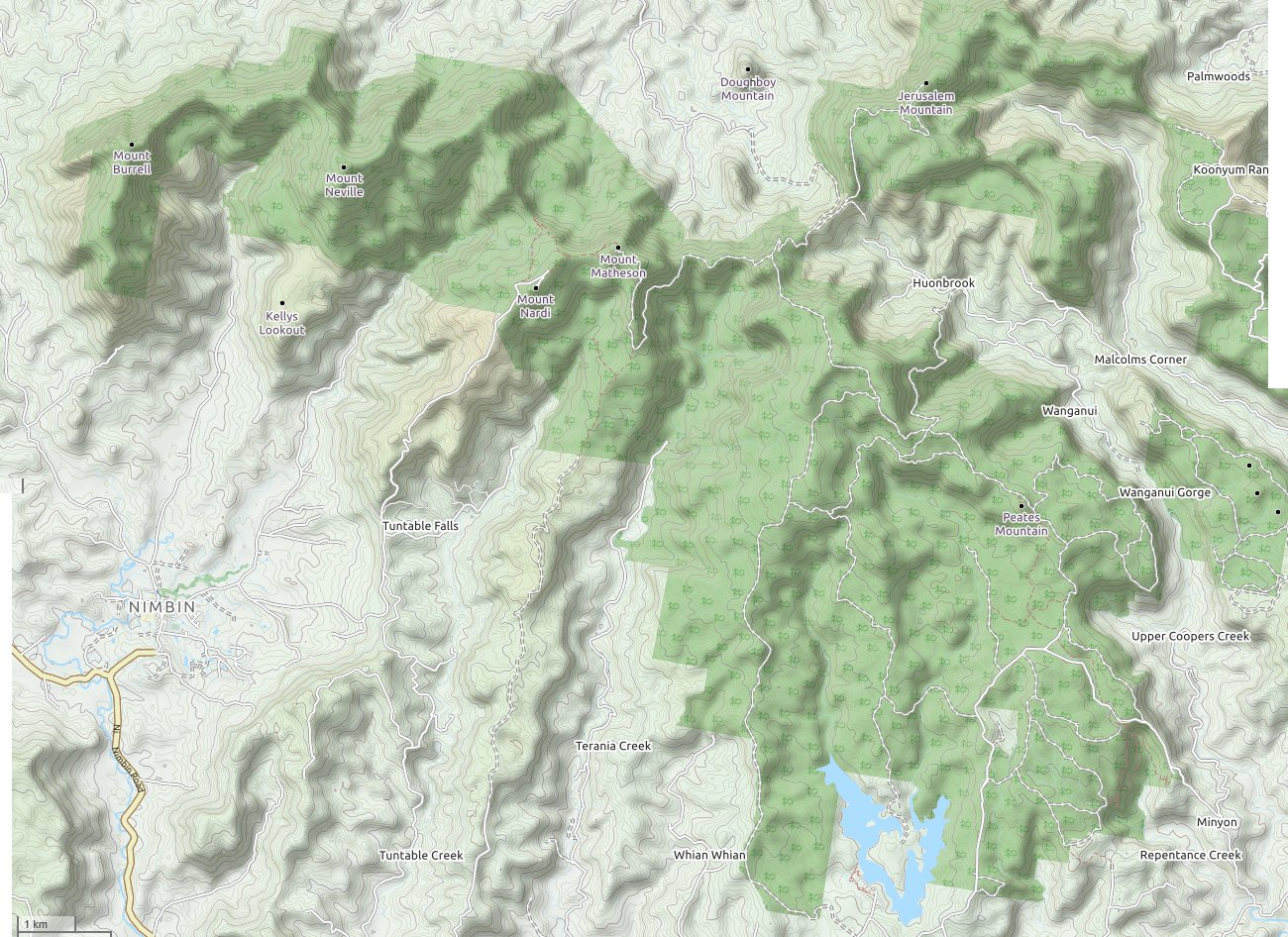 The Nightcap Range (mountains) in northern New South Wales, Australia - map from OpenStreetMap, generated November 2019